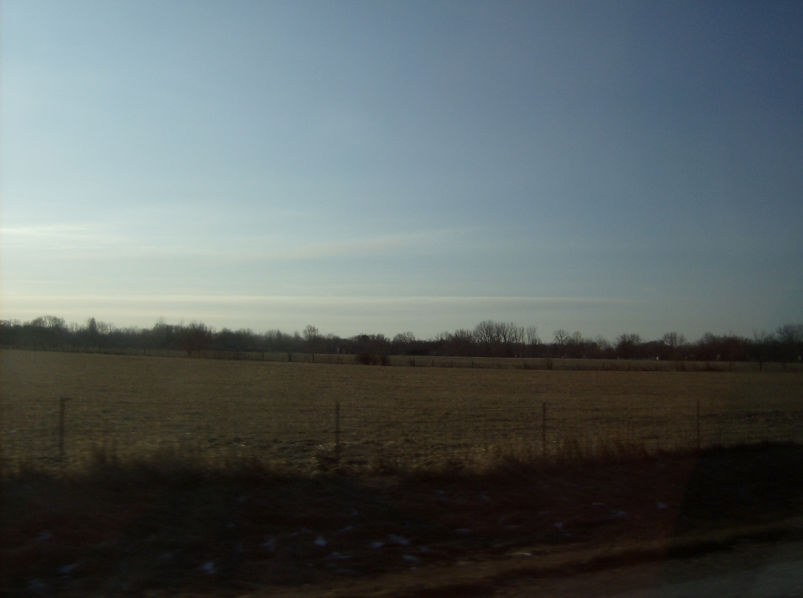 Countryside in northern Erie Township, Miami County, Indiana, United States. Picture taken southward from U.S. Route 24.